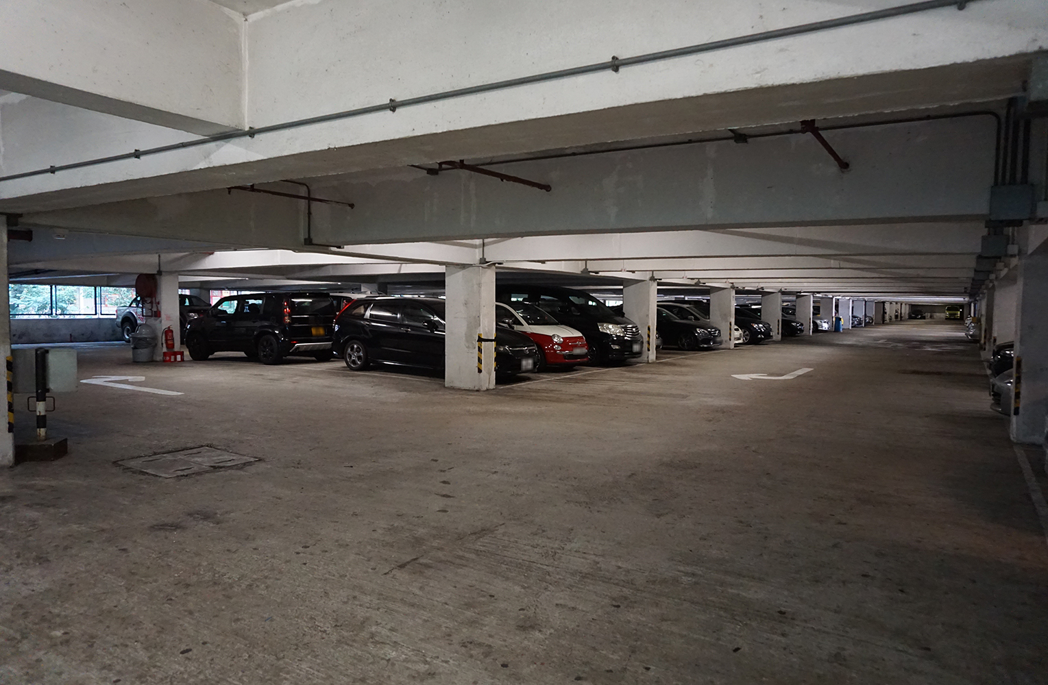 Lei Cheng Uk Car Park in Cheung Sha Wan, Hong Kong.